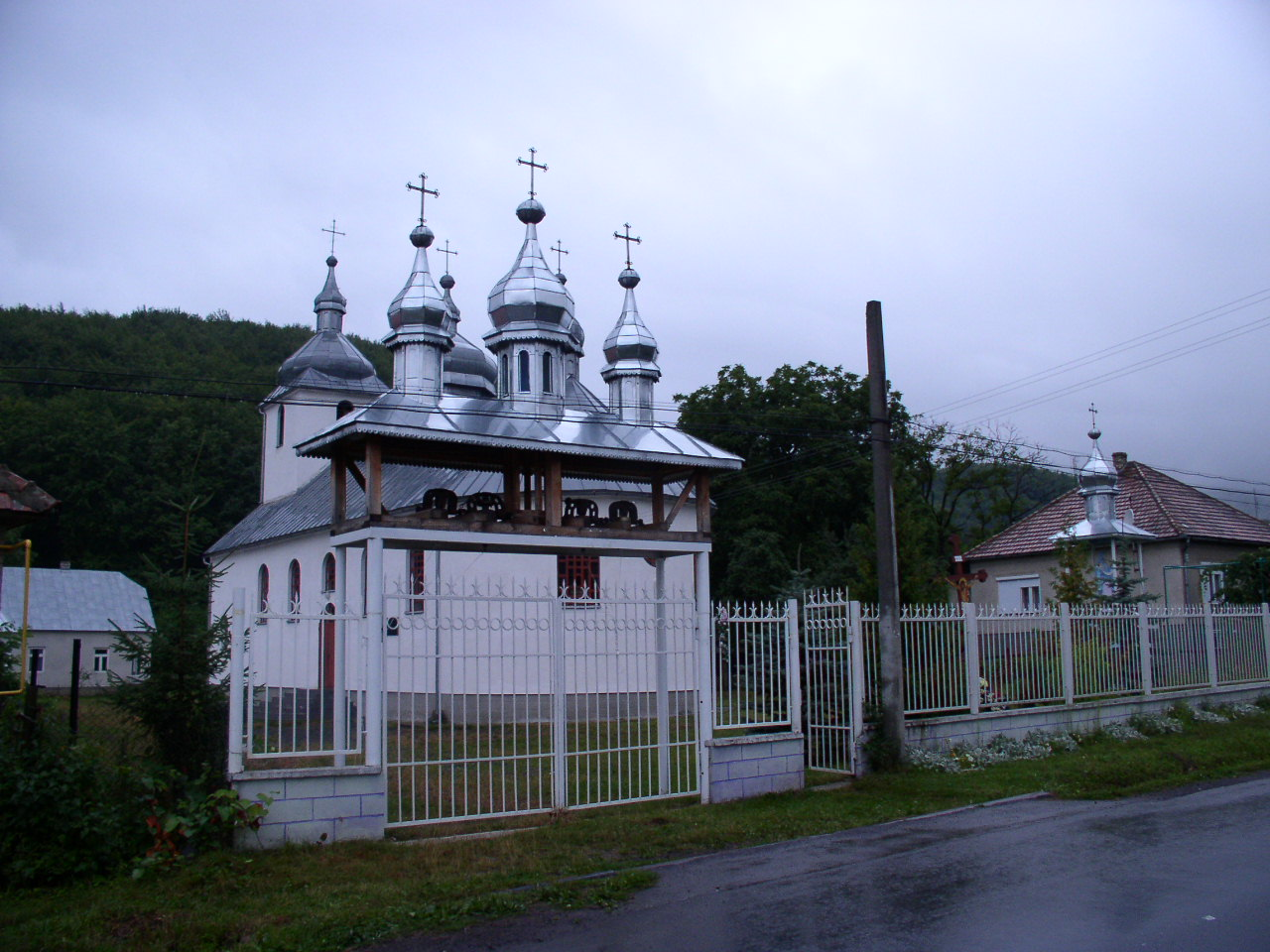 Church. Chynadiiovo, Ukraine.